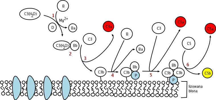 4. Is factor D cleaving B to Bb and Ba. Rysunek do artykułu dopełniacz (Biologia). Autor: Wikipedysta:Rantes Template:DoSVG